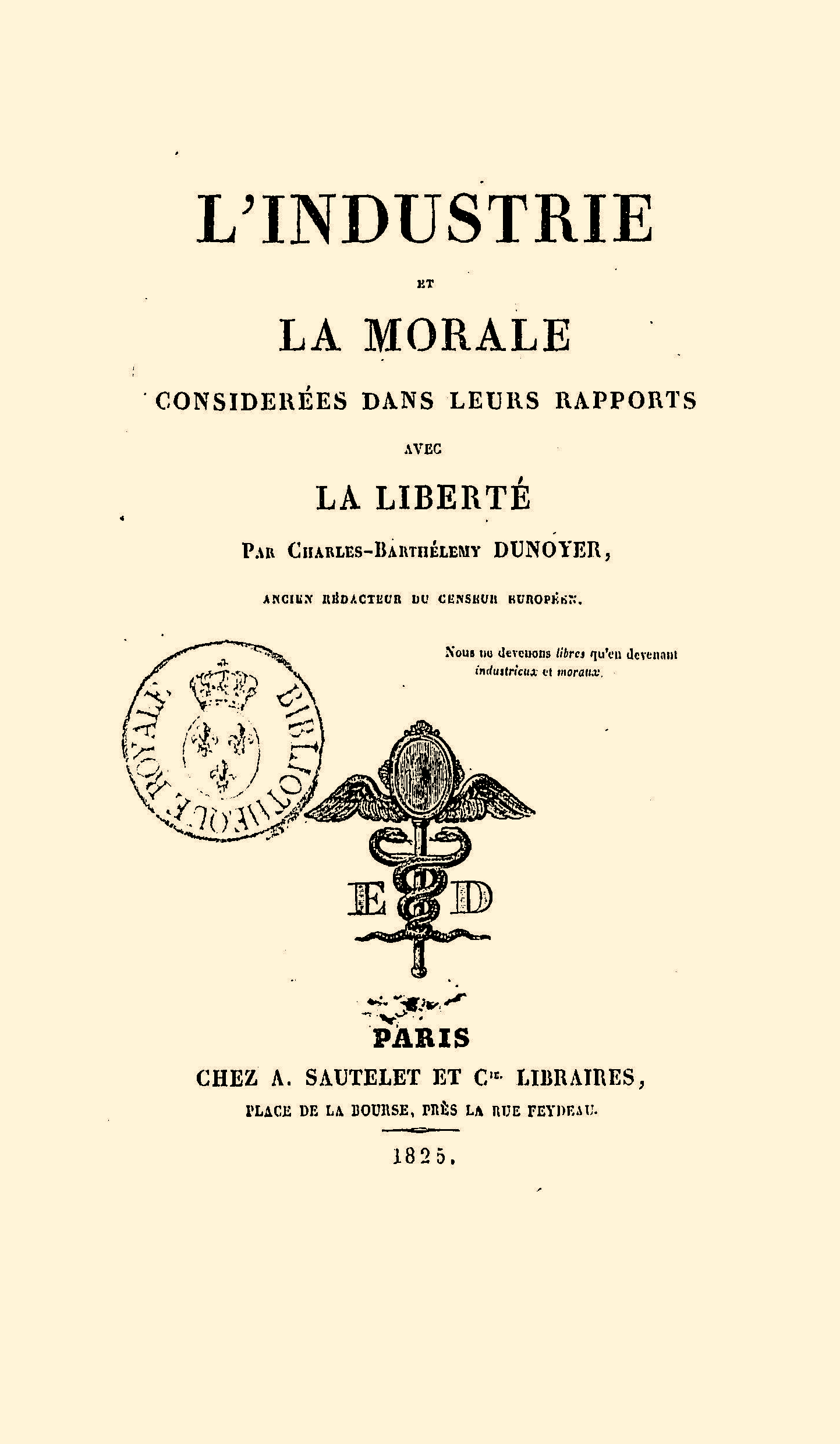 Frontispiece of Charles Dunoyer’s L'industrie et la morale considérées dans leurs rapports avec la liberté, A. Sautelet (Paris) : 1825, VIII-450 p. ; in-8°.